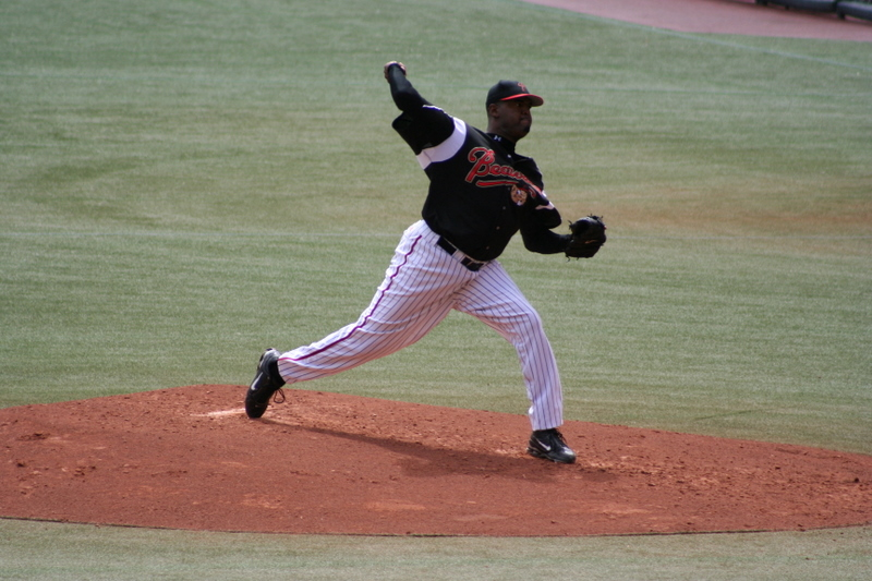 July 30, 2006 game between the San Diego Padres' AAA affiliate Portland Beavers and the Washington Nationals' AAA affiliate New Orleans Zephyrs. Brazelton pitched a strong game and earned the win.